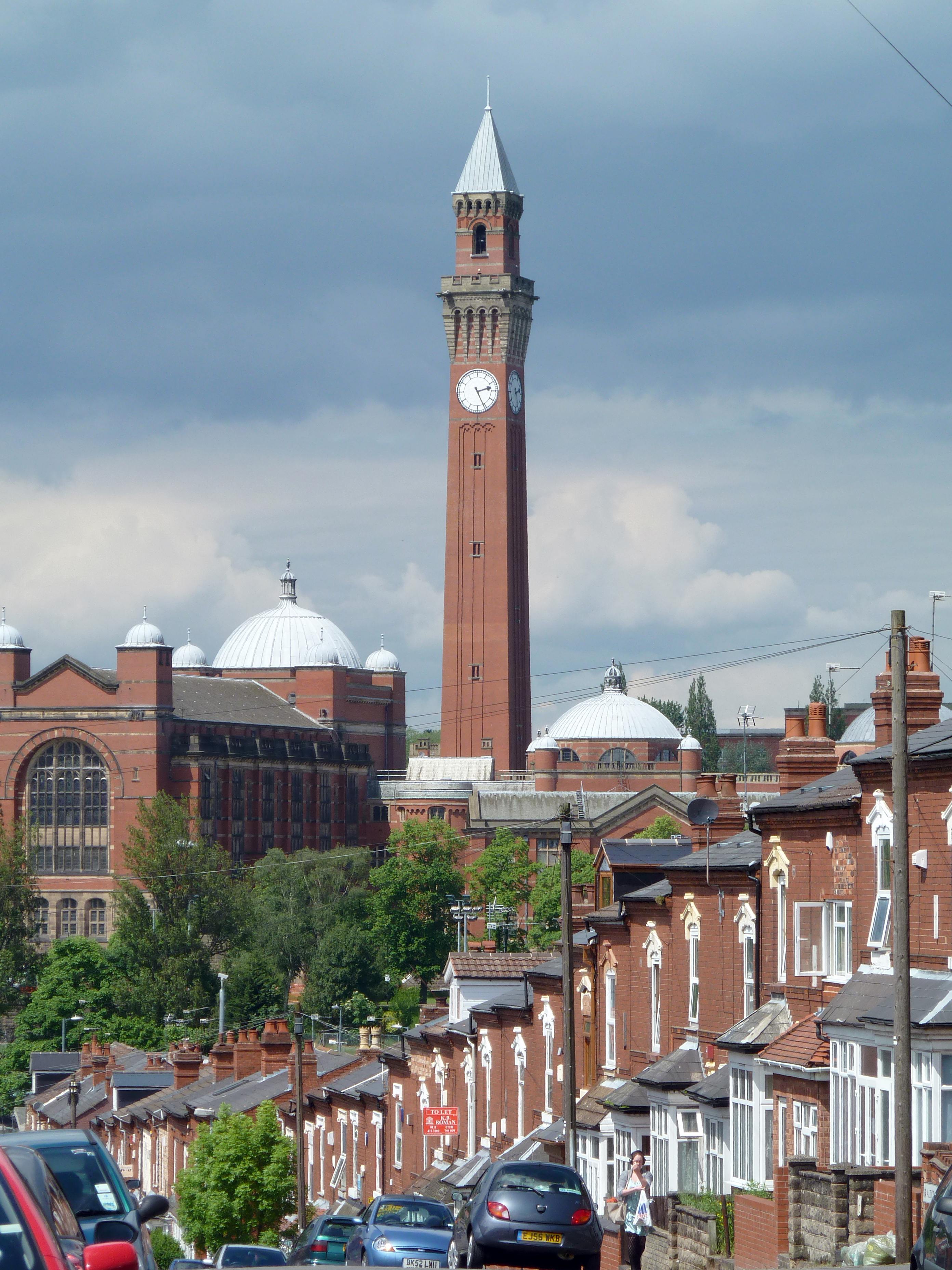 crop of File:Old Joe and University of Birmingham from Bournbrook.jpg to fit montage